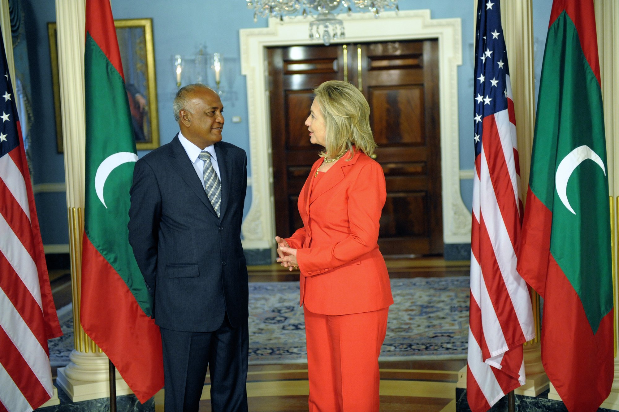 U.S. Secretary of State Hillary Rodham Clinton holds a bilateral meeting with Maldivian Foreign Minister Ahmed Naseem, at the U.S. Department of State in Washington, D.C., on July 13, 2011. [State Department photo/ Public Domain]